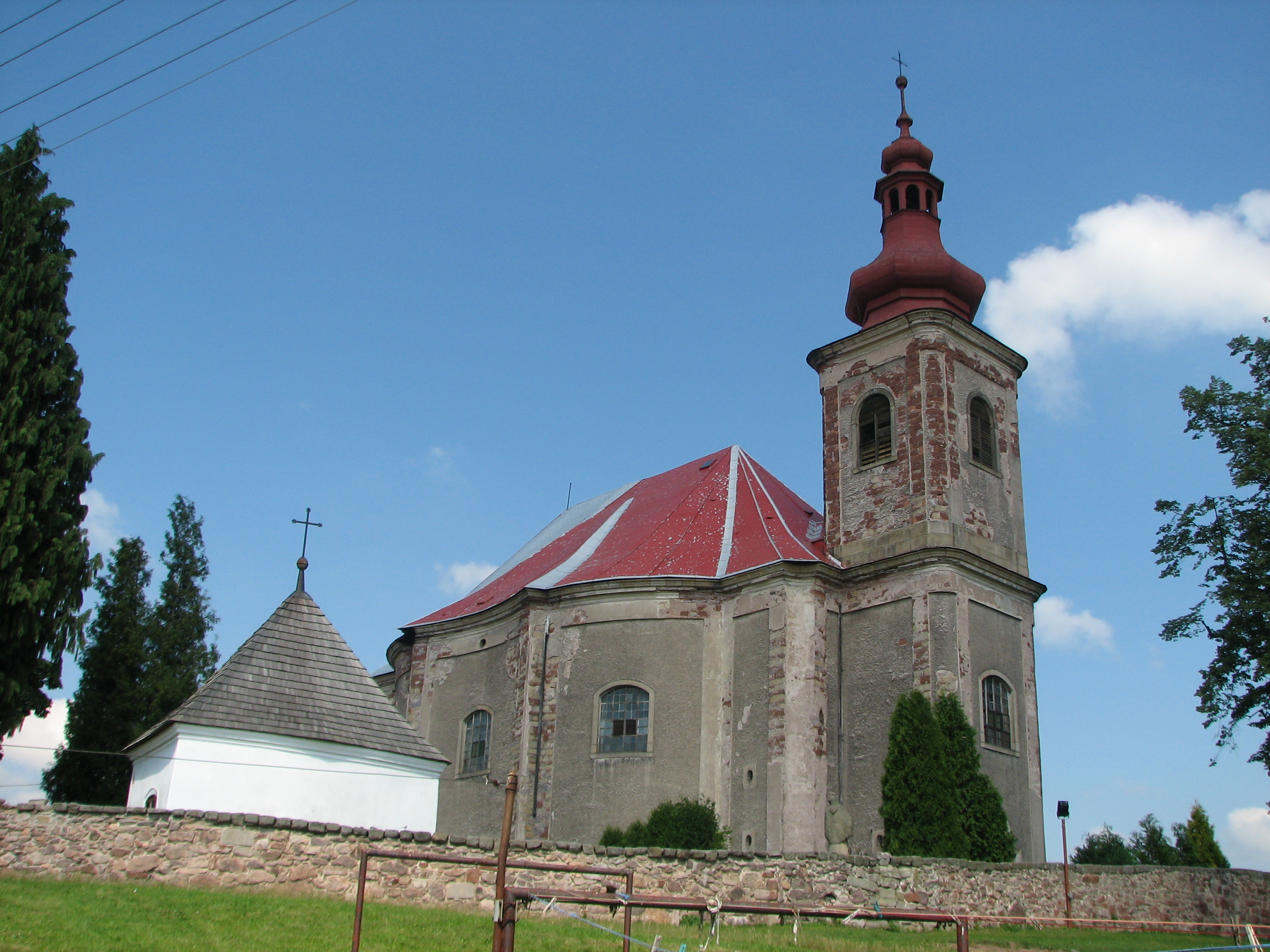 Vižňov - church of St. Anne